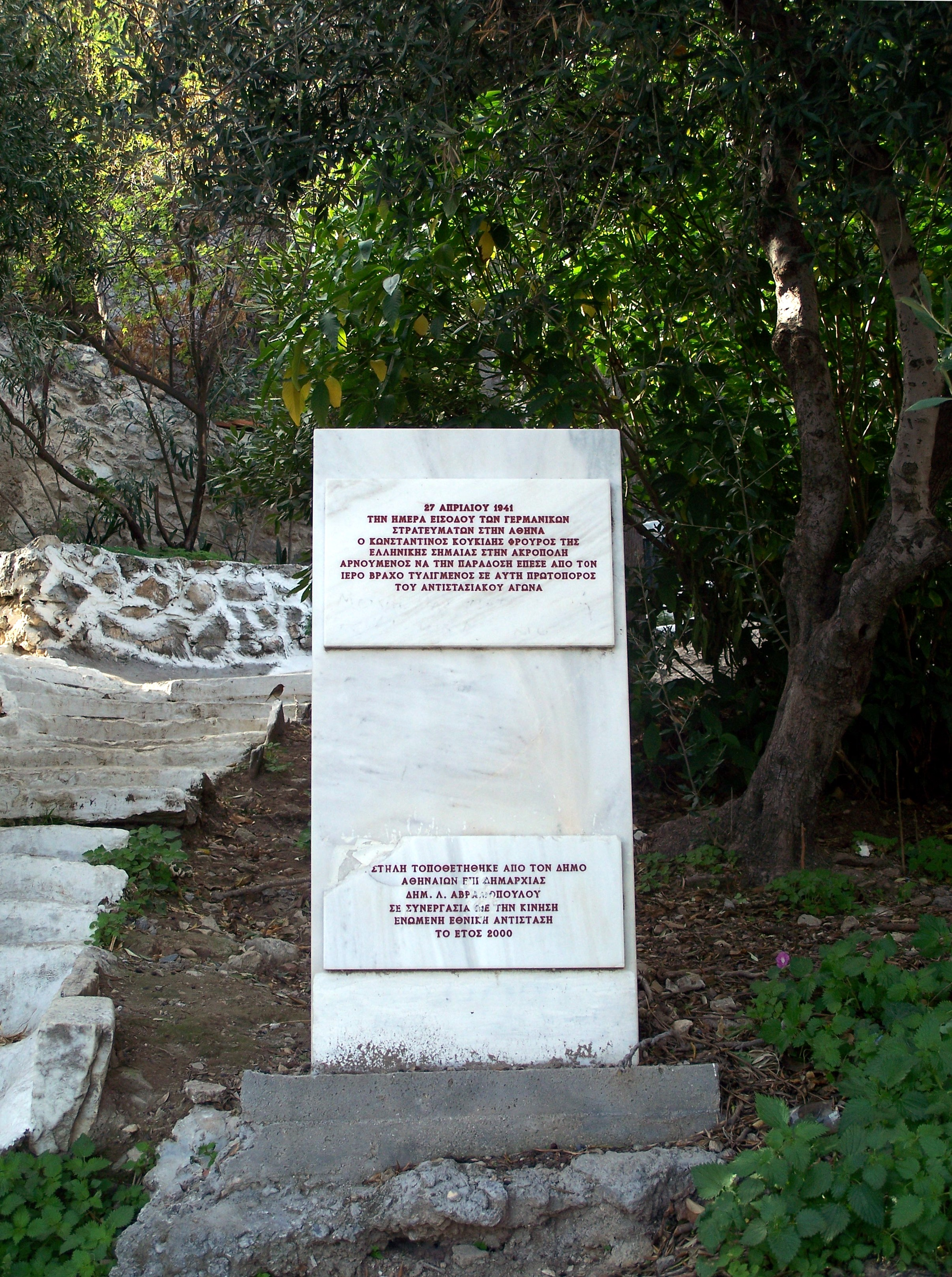 The monument for Konstantinos Koukidis, the soldier who refused to raise the Nazi flag on the Acropolis the day the german forces entered Athens and instead jumped from the walls wrapped in the greek flag. The monument is located below Acropolis, probably at the point where he fell.